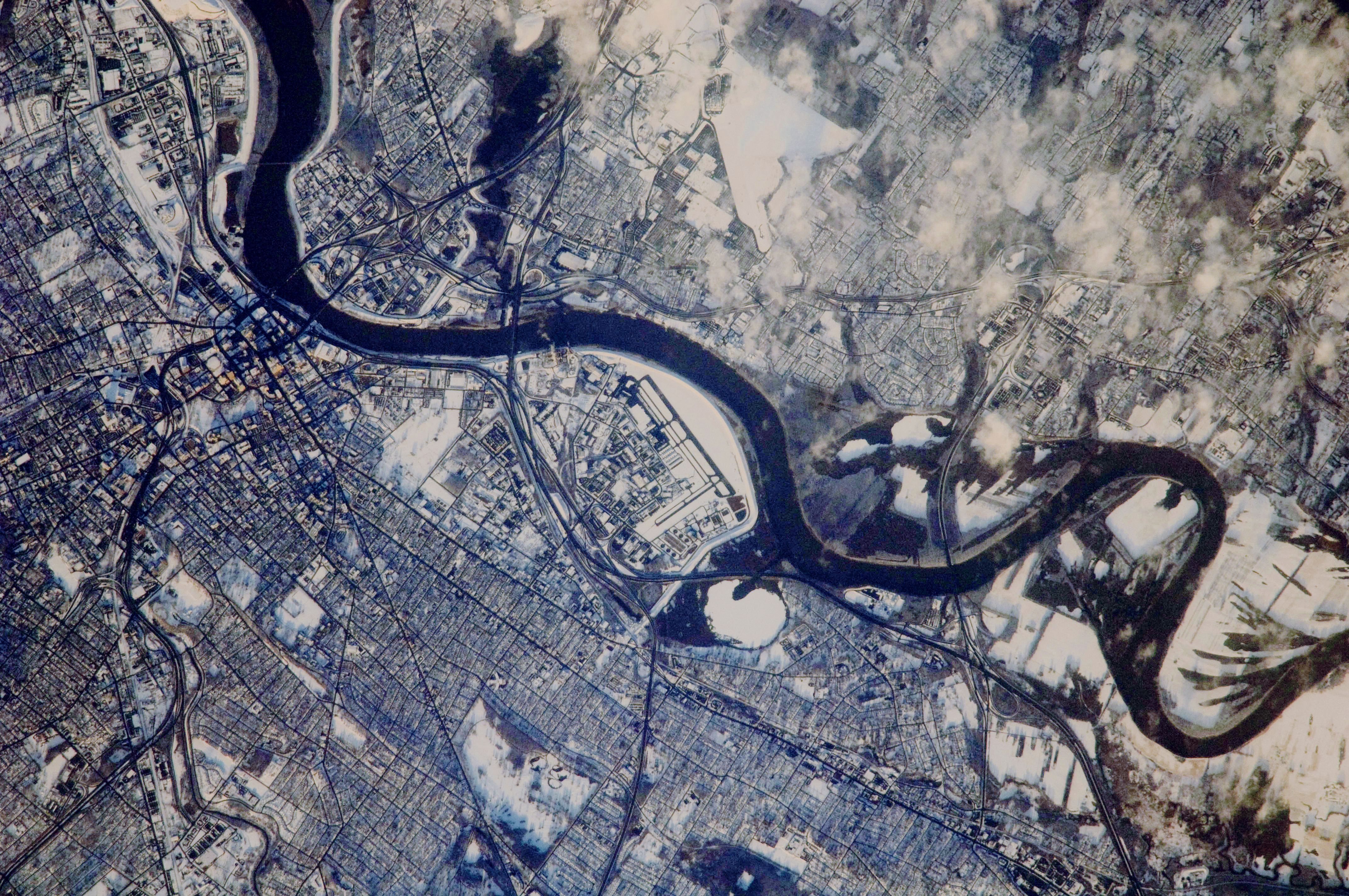 Astronaut Photography of Hartford, Connecticut in winter taken from the International Space Station (ISS). Orientation is east-northeast at the top of the image.